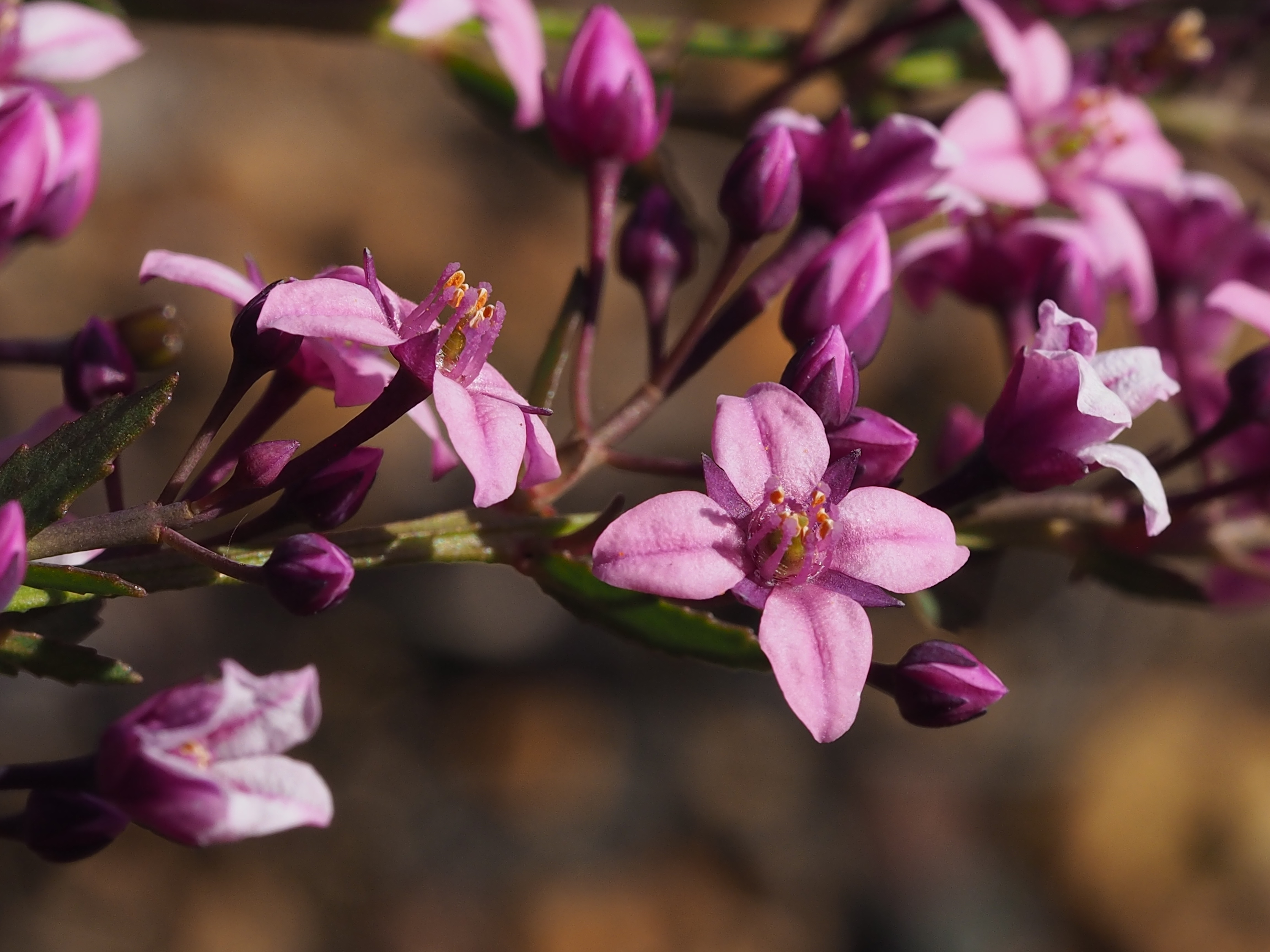 Flowers of Boronia tenuior growing near the Brockman Highway